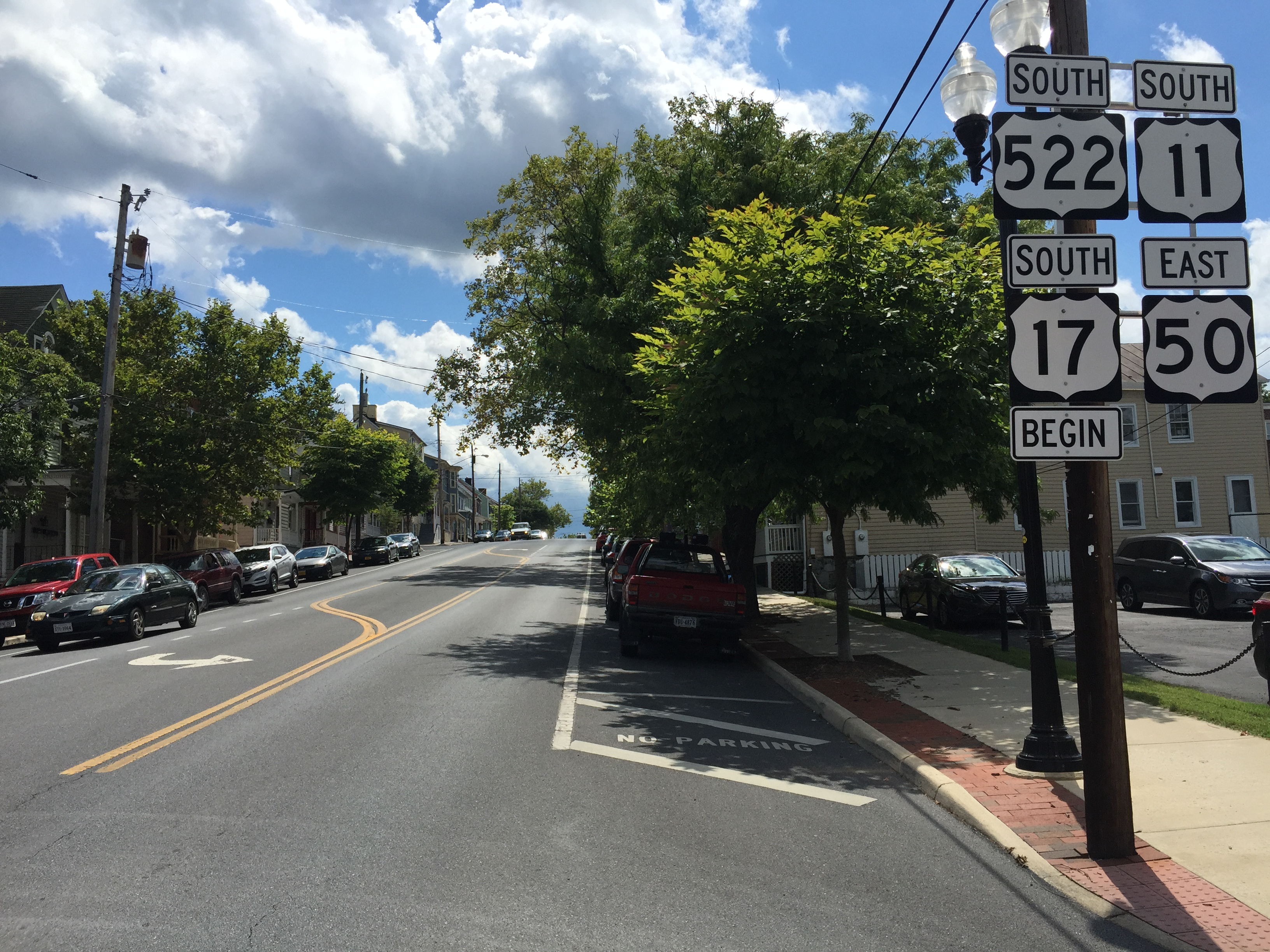 View south along U.S. Route 11, U.S. Route 17, U.S. Route 522 and east along U.S. Route 50 (Cameron Street) at Clifford Street in Winchester, Virginia